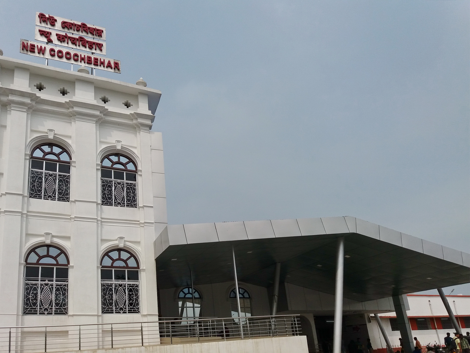 This is the new look of the New Coochbehar Railway Station; the old station's photos is here